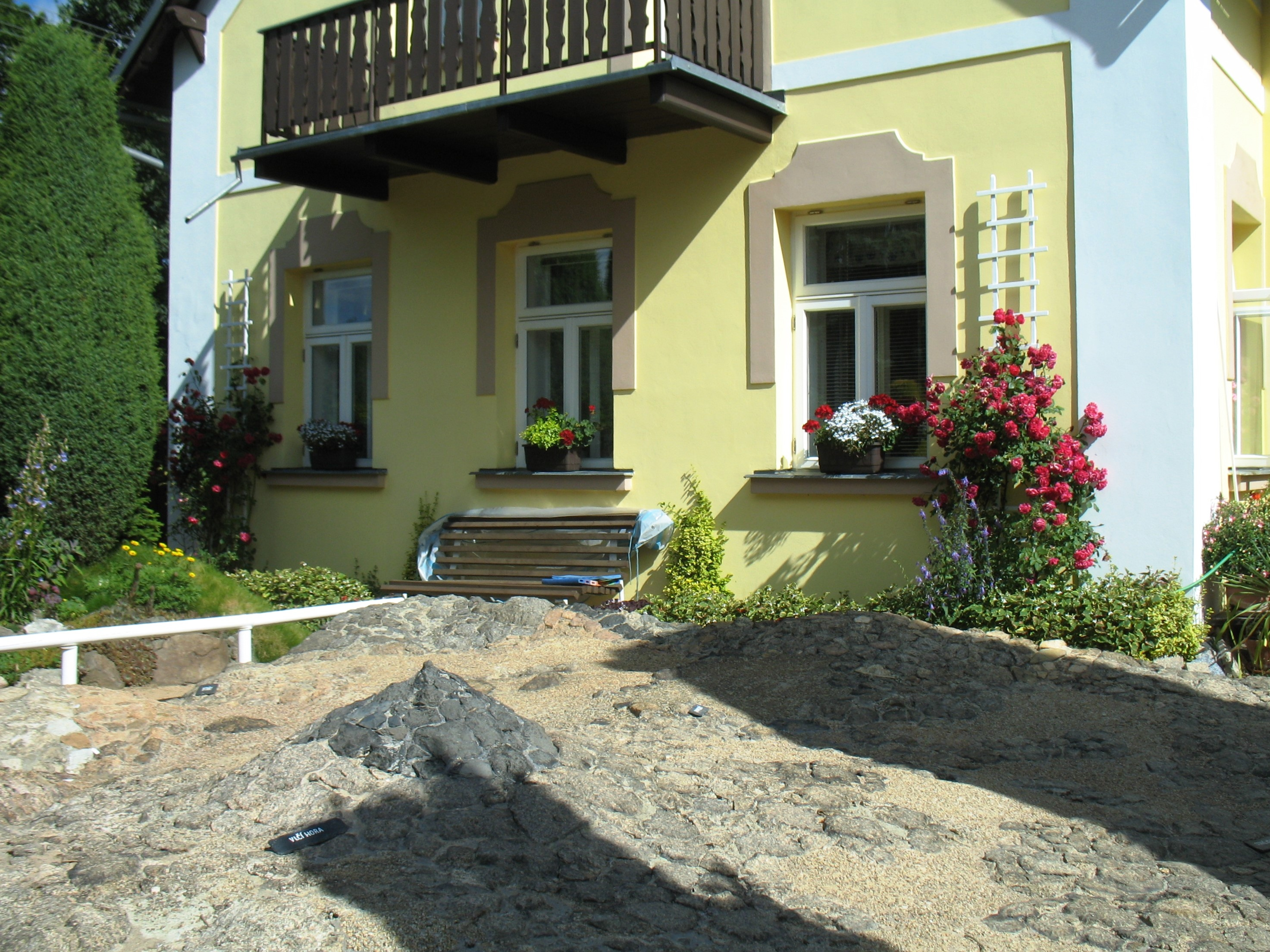 Rudolf Kögler´s geological map in Zahrady. Cultural monument in Děčín District, Czech Republic